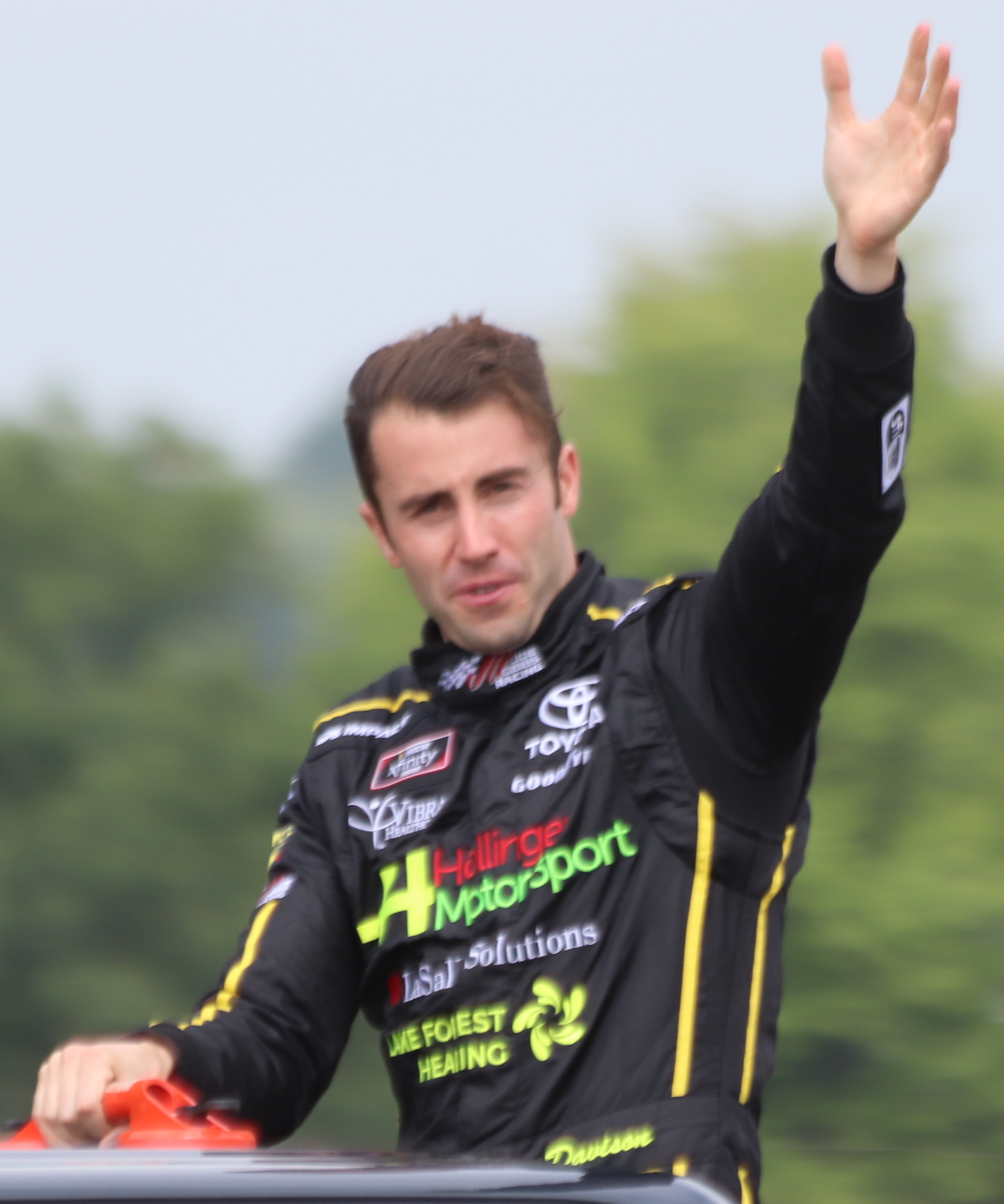 NASCAR Xfinity Series driver James Davison waves to fans at the 2018 Road America race.